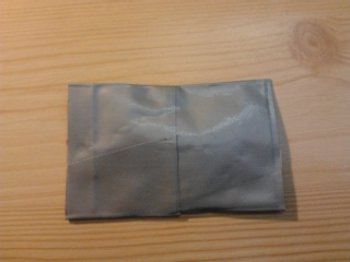 Homemade palatka for use in geocaching, small cache with magnets for attachment on metal, often used in urban environments and along roads.